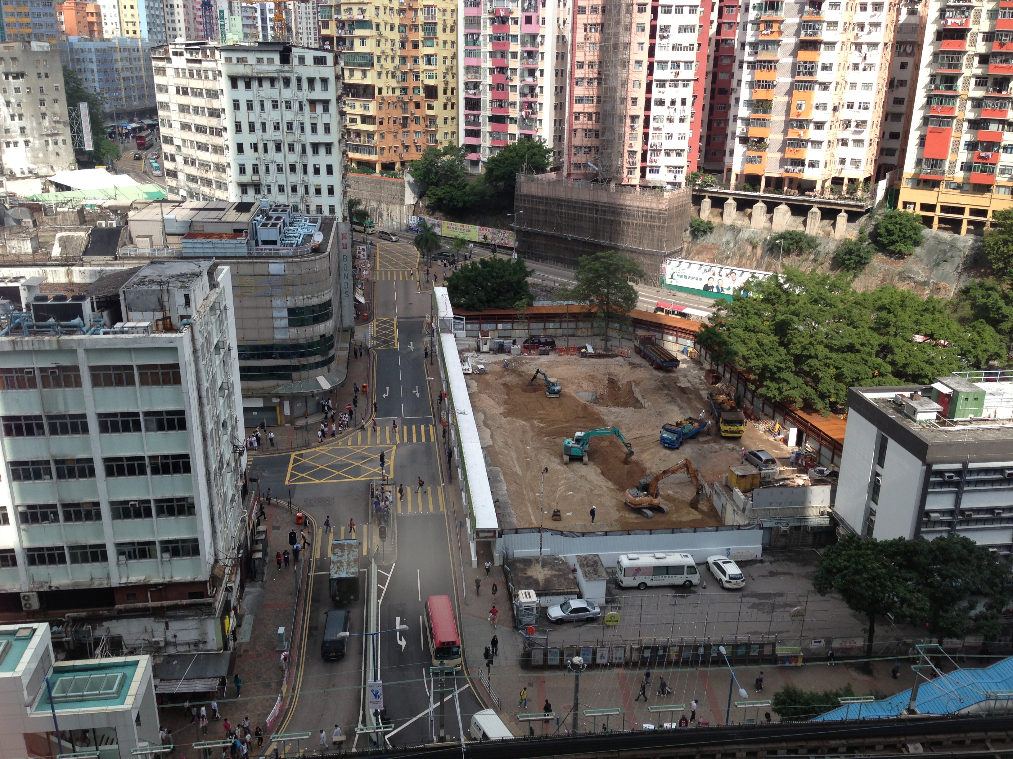 Redevelopment Project of Kwun Tong Government Offices